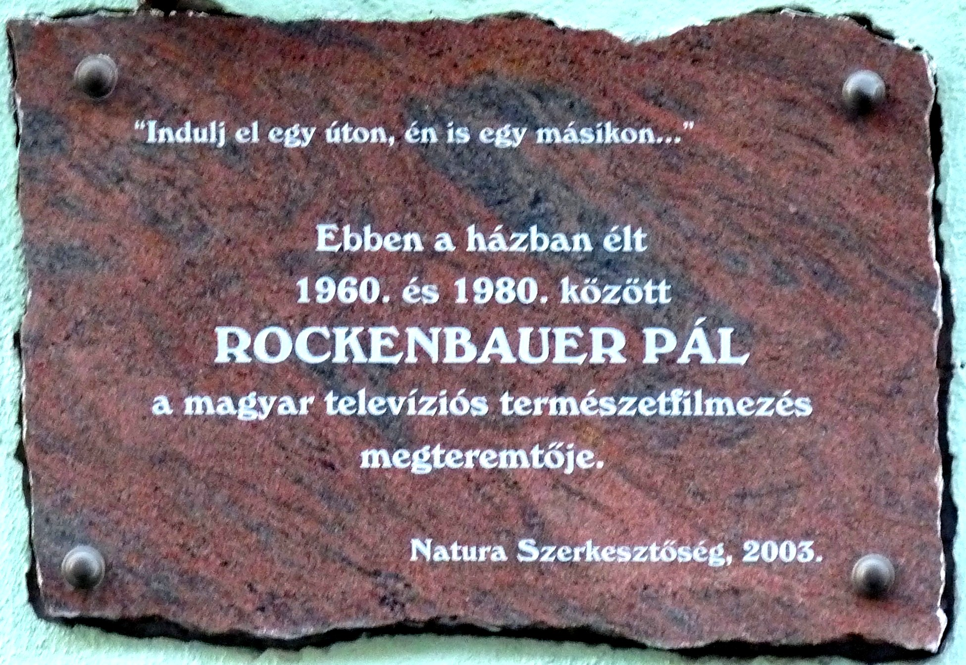 Pál Rockenbauer commemorative plaque in Budapest District VIII, Bródy Sándor Street No 26.